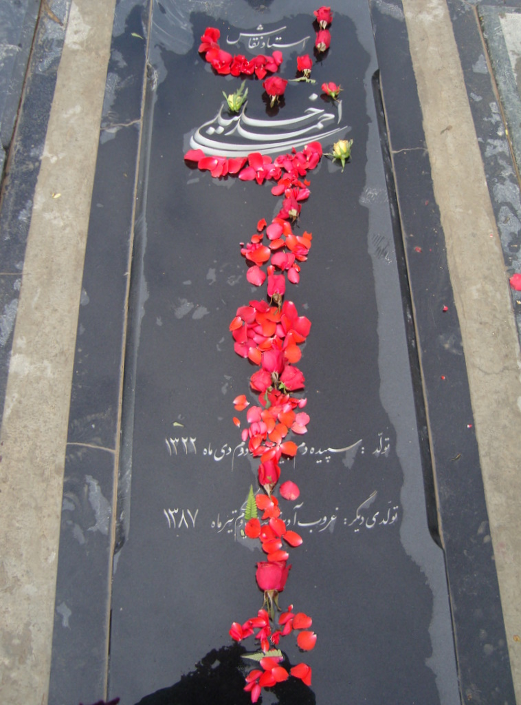 Ahmad Khalili's tomb, Beheshte Zahra cemetery, Tehran